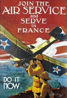 Poster to join the US Air Service.